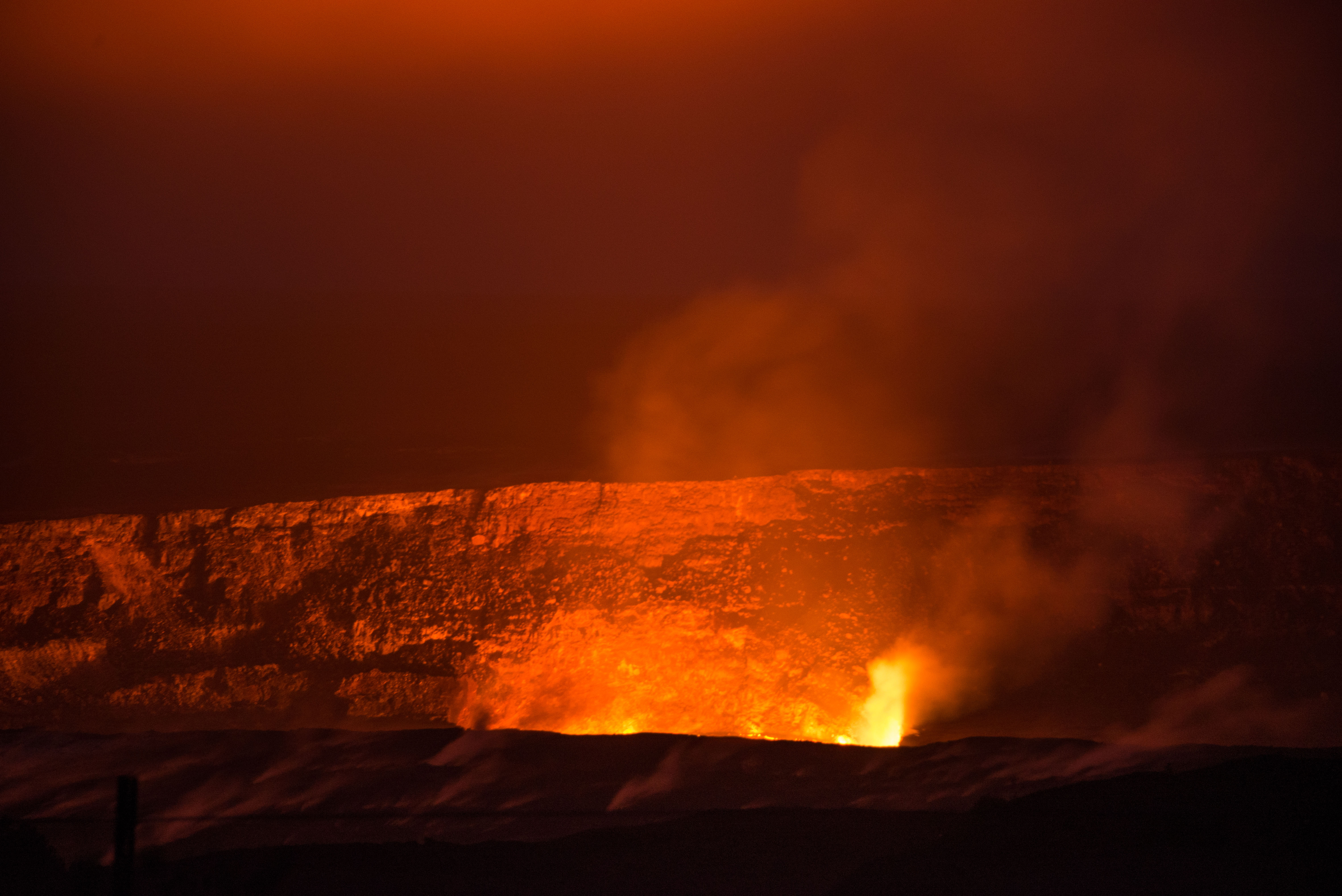 View of Halema‘uma‘u from Jaggar Museum